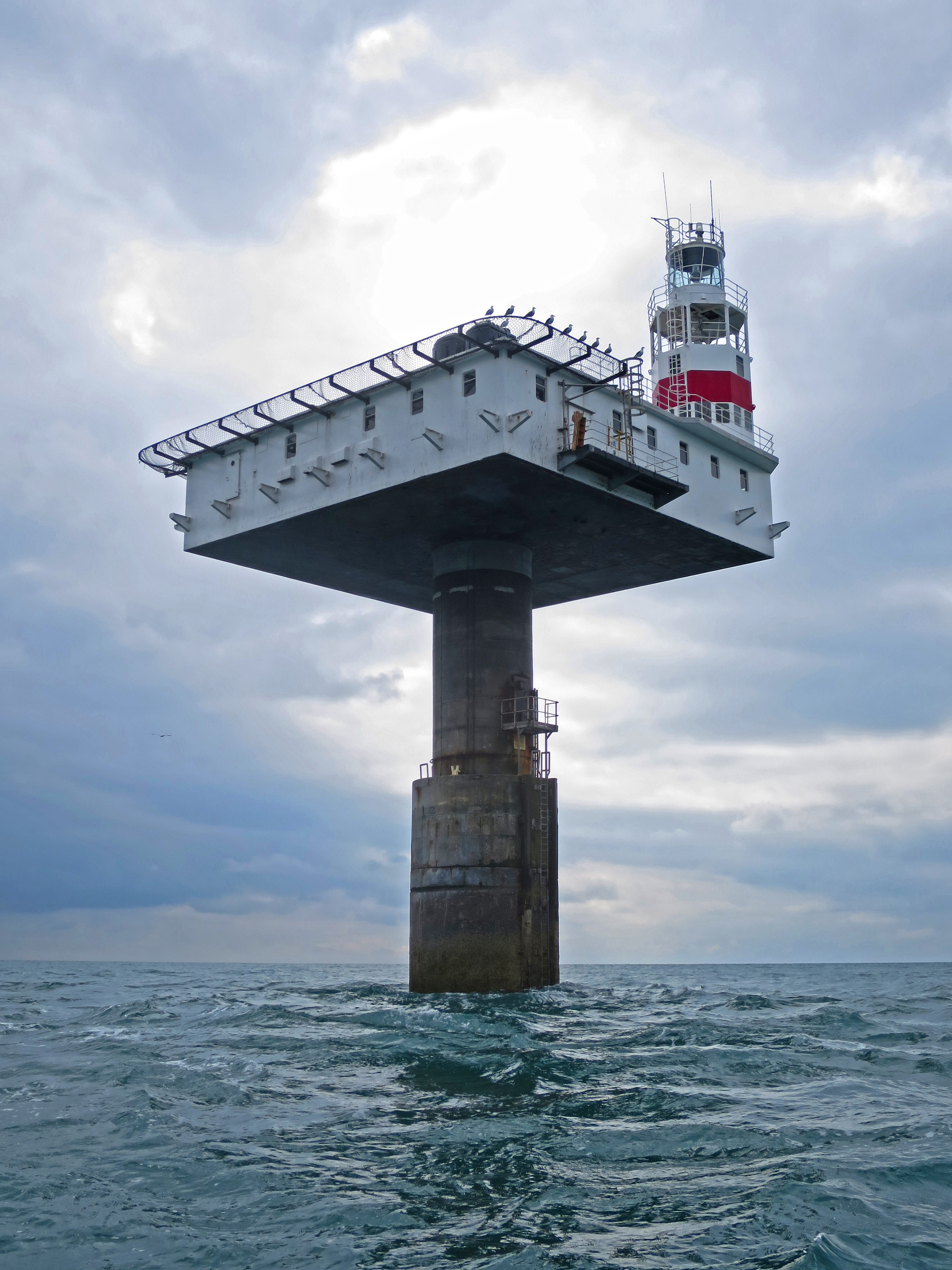 Royal Sovereign light tower